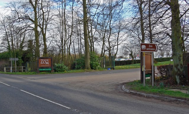 Entrance to Twycross Zoo Along the A444 Burton Road.